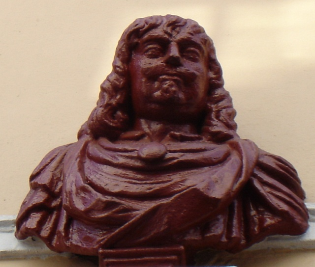 Photot taken by lonpicman